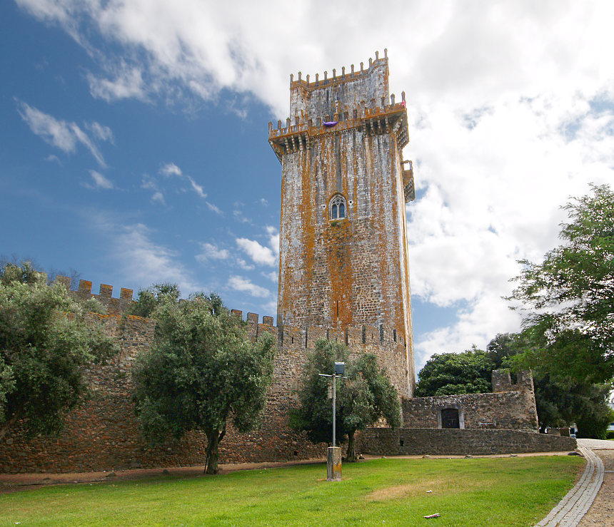 Keep of the castle of Beja seen from Northeast